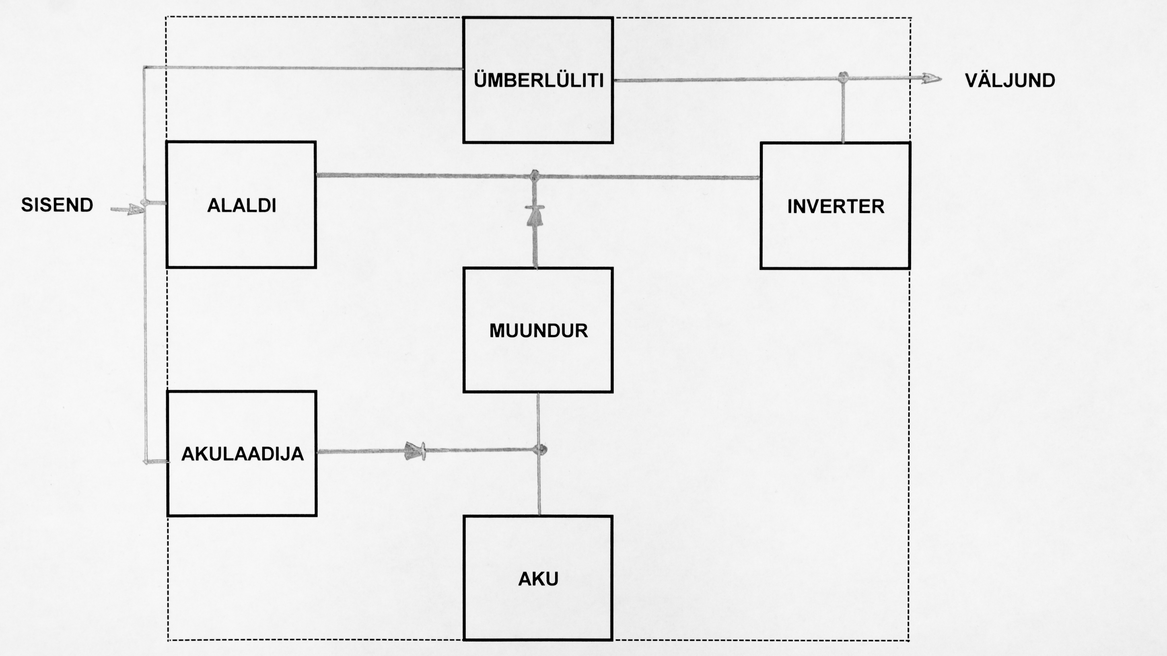 ONLINE UPS